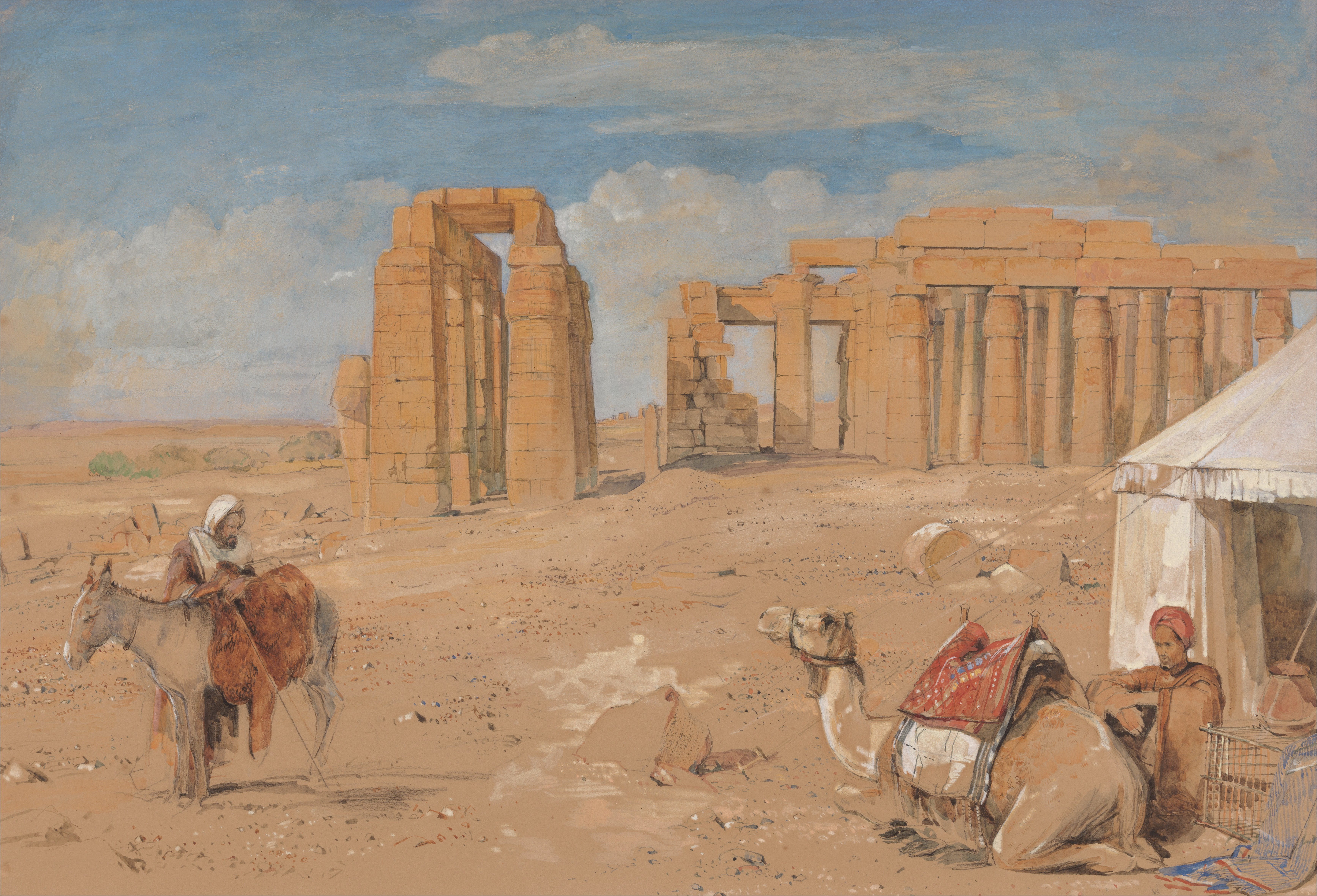 Architectural subject